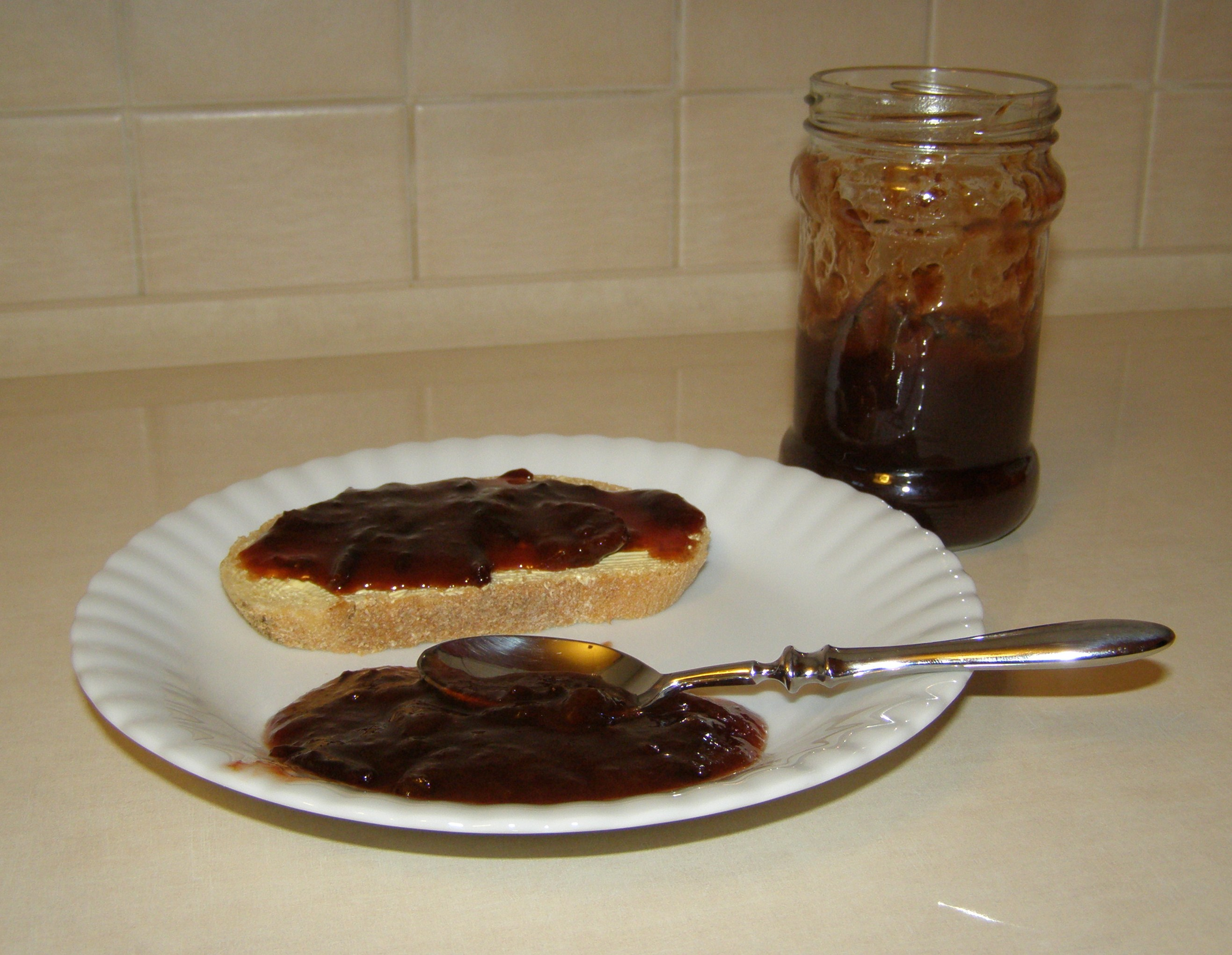 Powidl